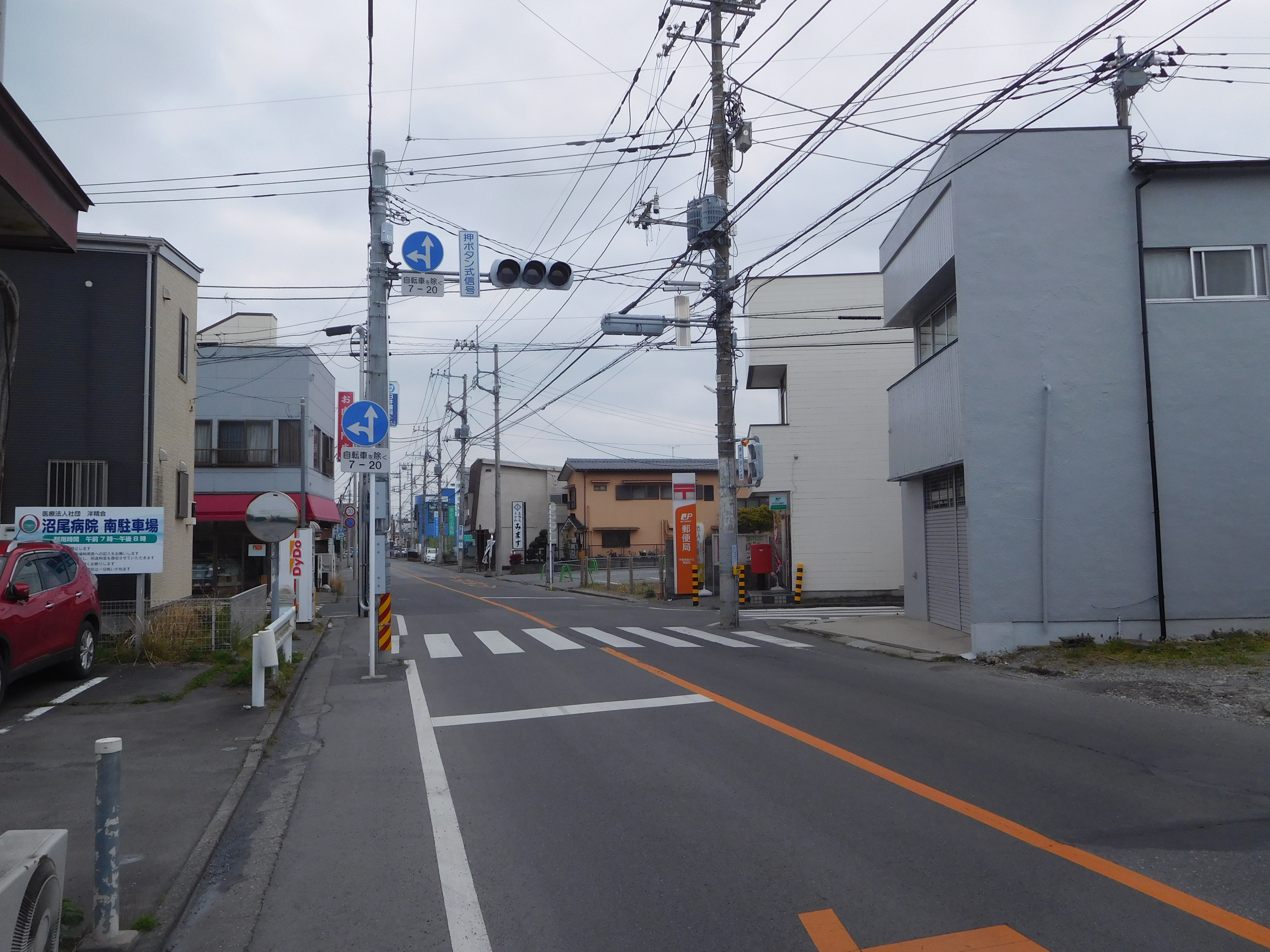 This is Kiyosumi-cho street in front of Utsunomiya Post Office in Utsunomiya, Tochigi, Japan.